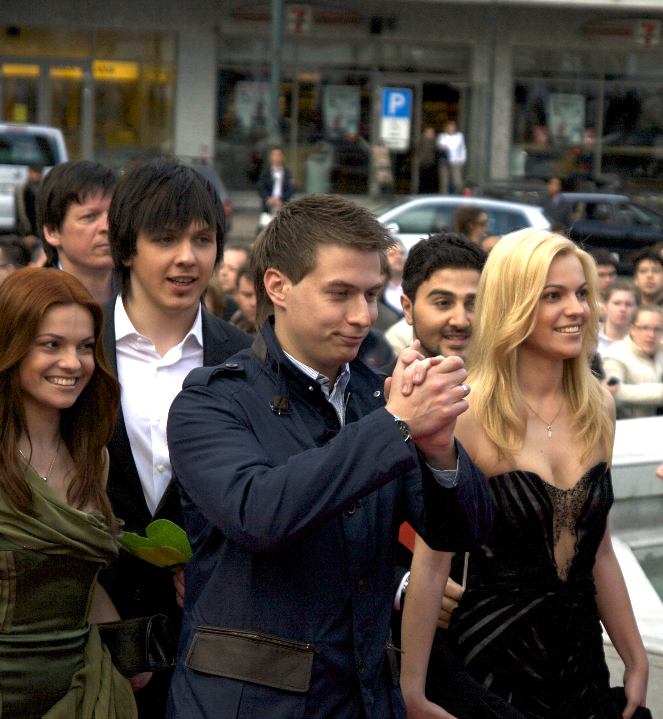 3+2 band